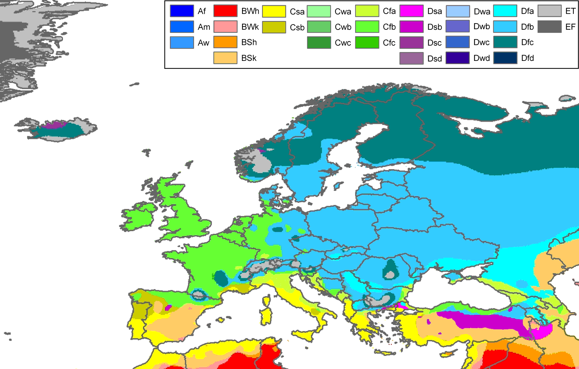 Climates of Europe (Köppen)